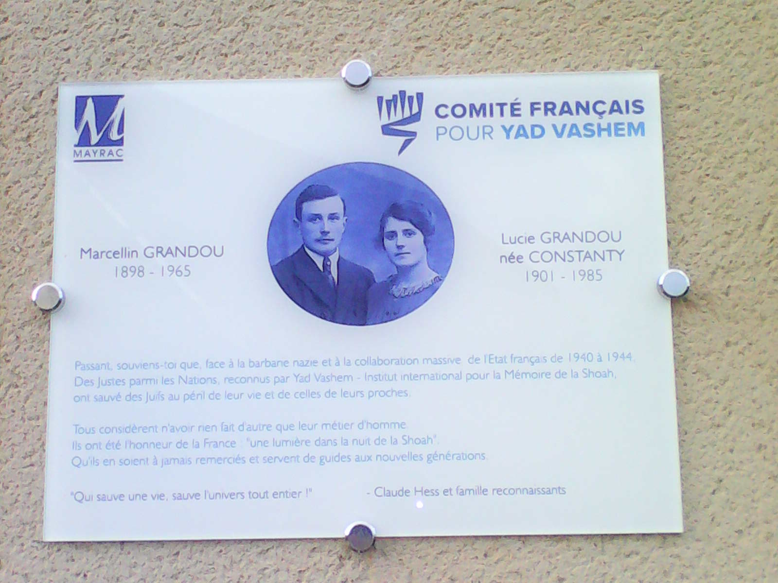 Screen-printed board produced by the French Committee for Yad Vashem in memory of Marcellin and Lucie Grandou, with photo, and affixed to the pediment wall of the old school at the entrance to the village.